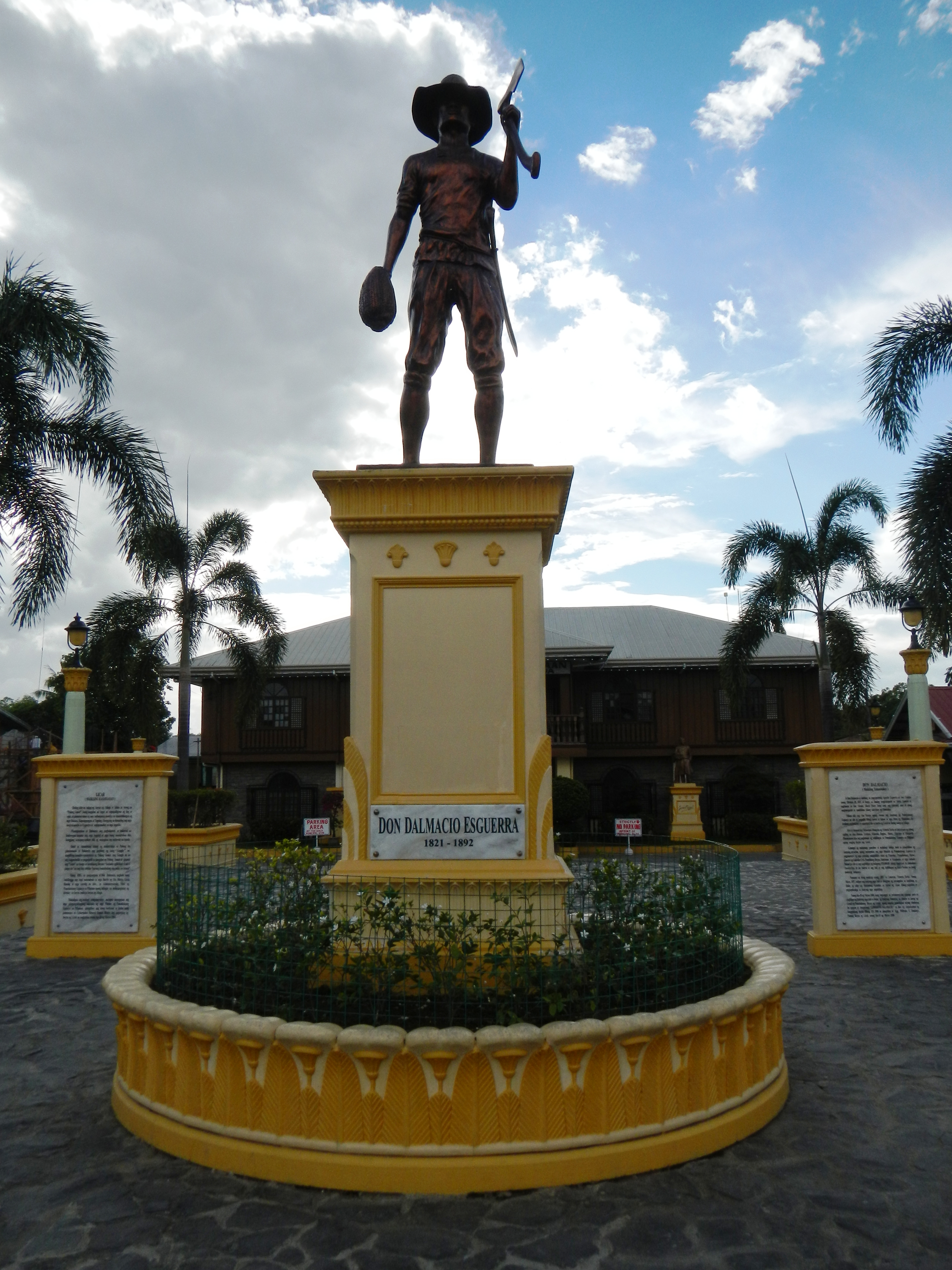 [1]Licab, Nueva Ecija is a fourth class municipality in the province of Nueva Ecija, Philippines.[2]Kariton Festival: Licab Town Fiesta 28 March 2010[3][4]Coordinates: 15°33'11"N 120°45'34"E[5]Kariton Festival Last Saturday of March - rig-cart drawn by carabao[6]